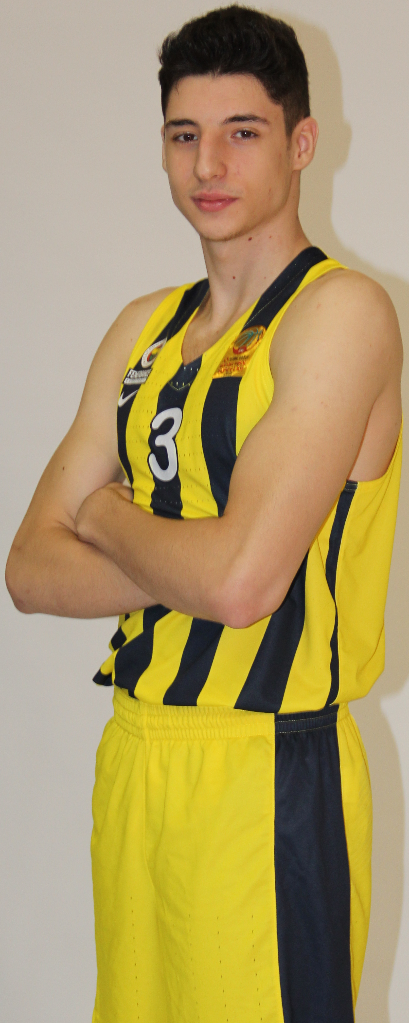 Efe Ergi Tırpancı Fenerbahçe Basketball Media Day 20180925